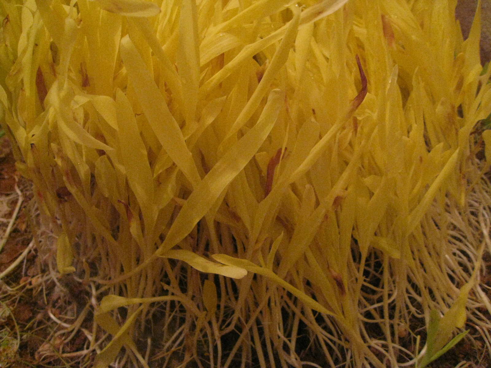 The Jamara used on the Tika during the Dasain festival